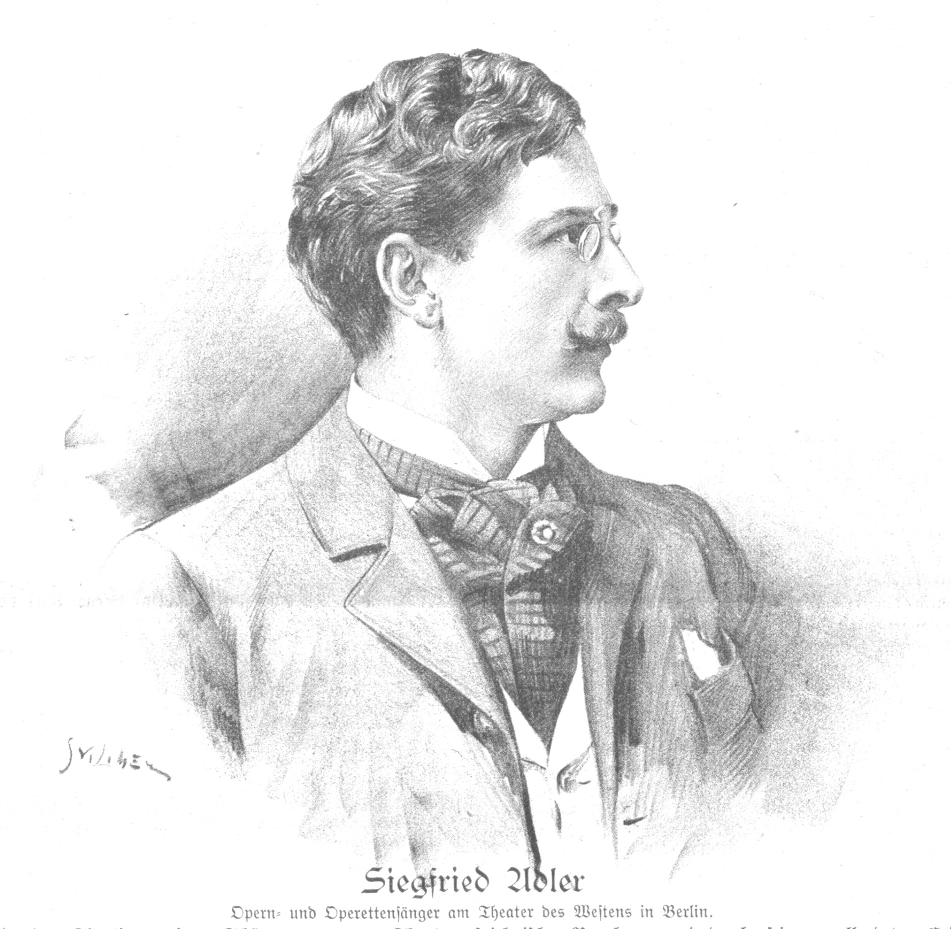 Portrait of Siegfried Adler (1873-??), Austrian singer.